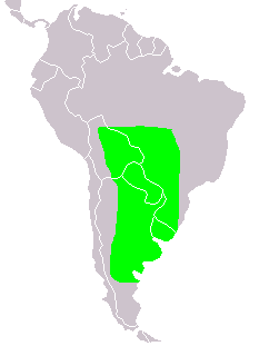 Southern Screamer (Chauna torquata) distribution